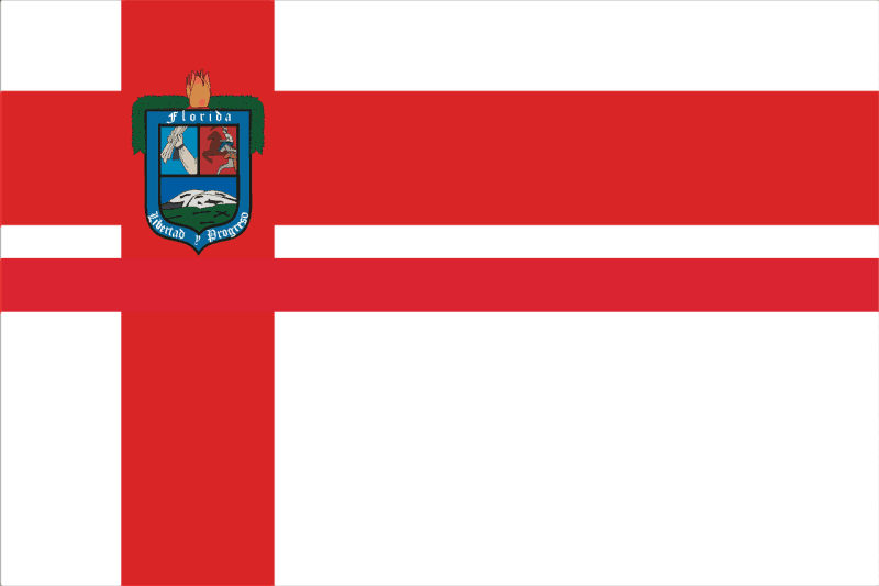 Flag of the Department of Florida, Uruguay. Drawn by: Jordevi